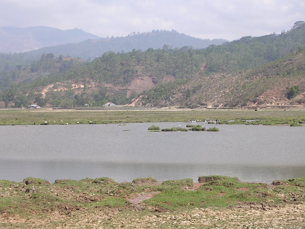 Lake Eraulo wetland view and waterbirds (egrets, Australian Pelican), Ermera, Timor-Leste